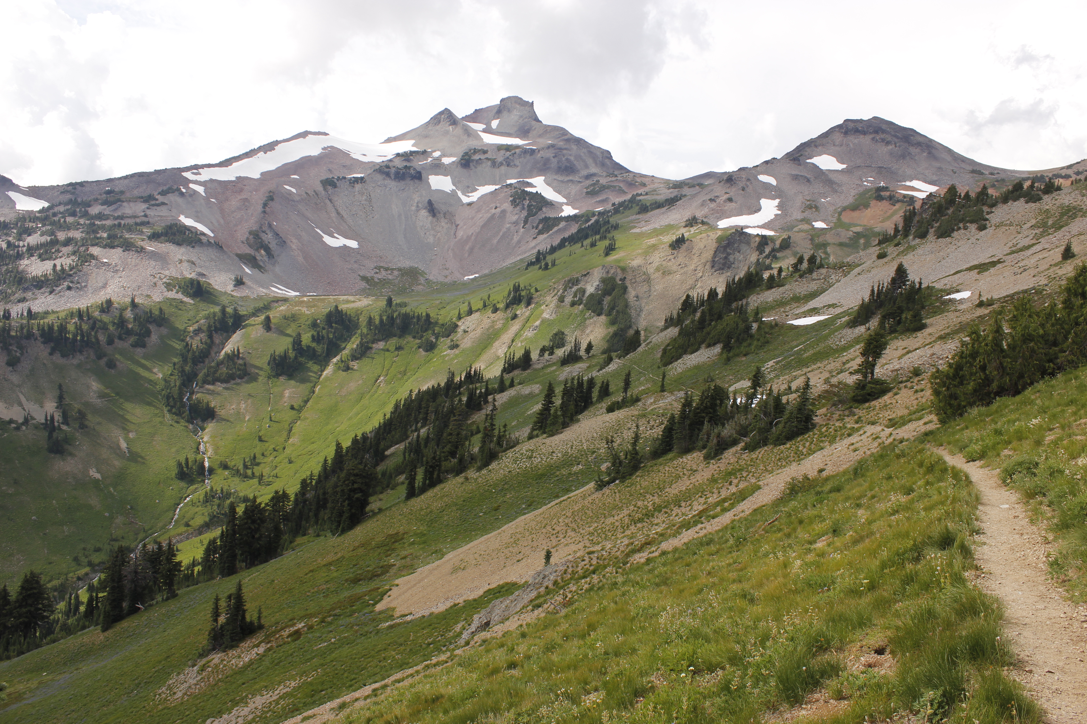 Ives Peak, Pacific Crest Trail, and Cispus River basin, Goat Rocks Wilderness on the Gifford Pinchot National Forest Photo by Matthew Tharp